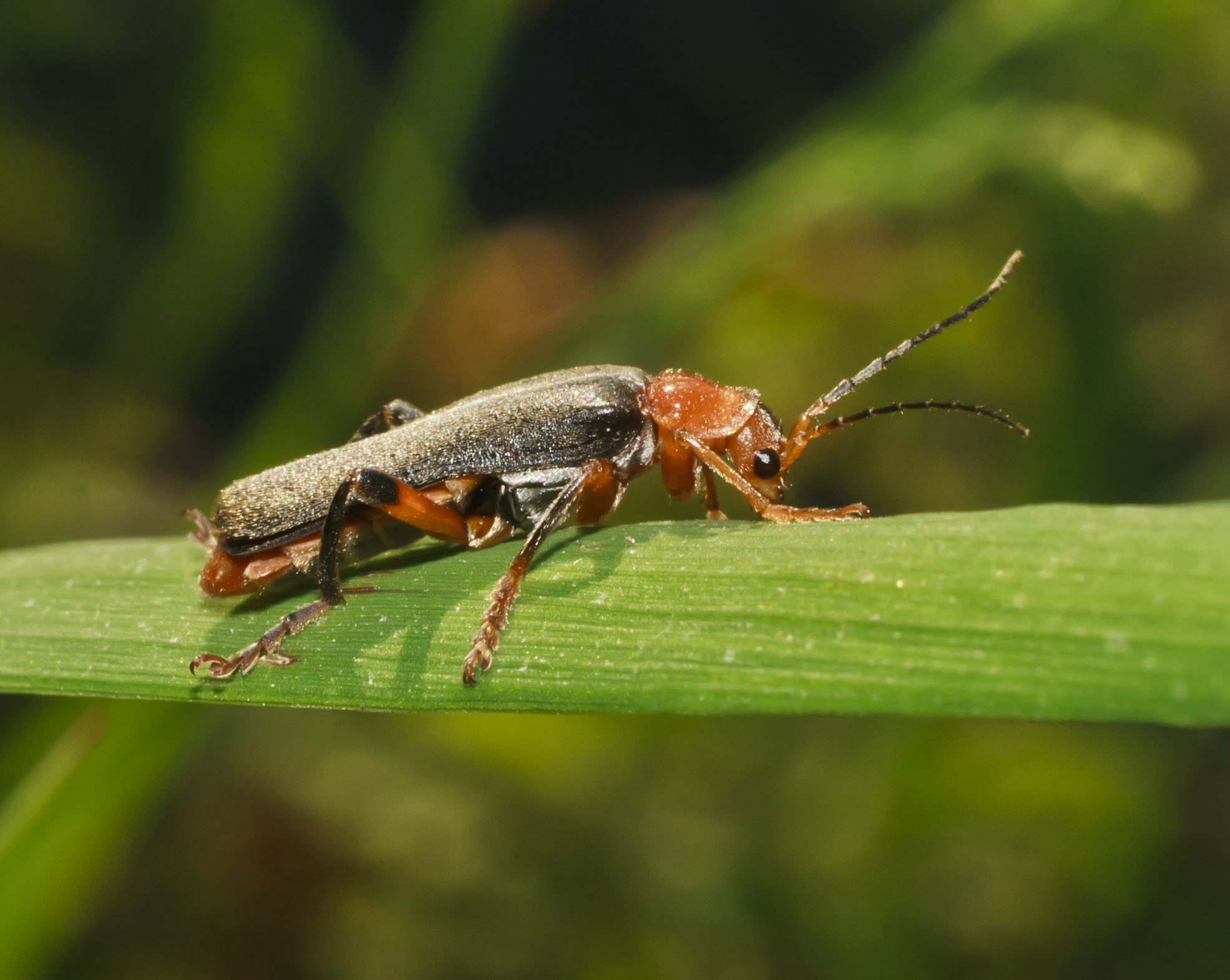 Cantharis nigricans